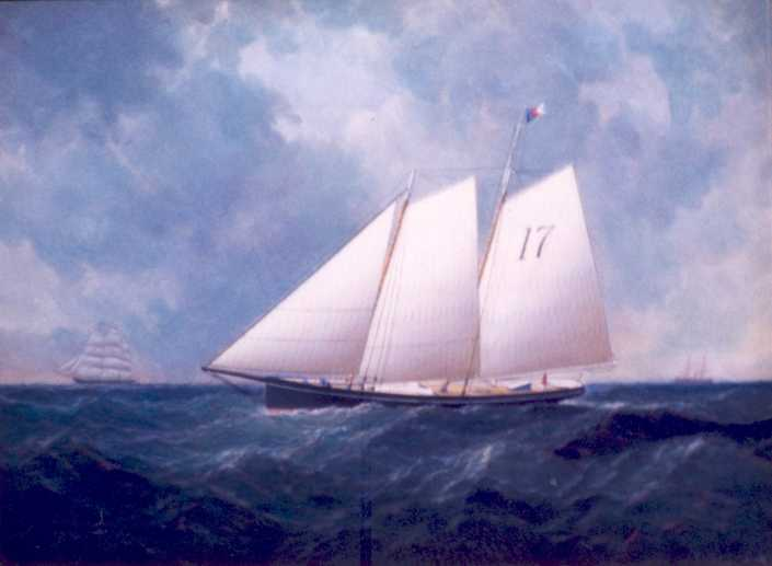 Conrad Freitag, American (1843-1894)